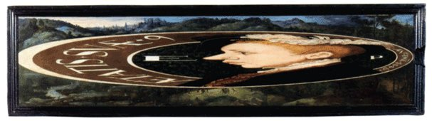 The painting was designed to be viewed from a particular angle.